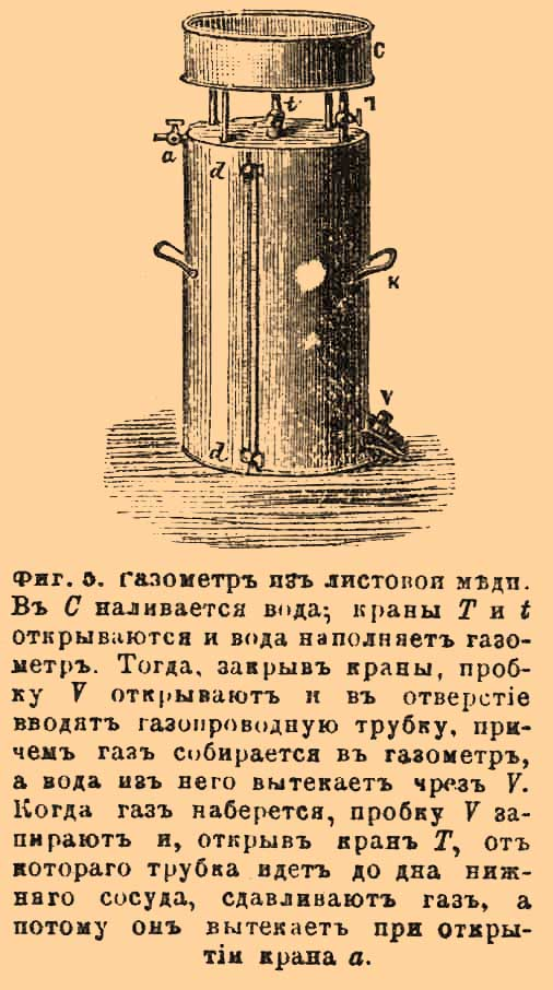 Illustration from Brockhaus and Efron Encyclopedic Dictionary (1890—1907)